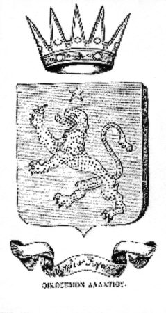 Leo Allatius coat of arms